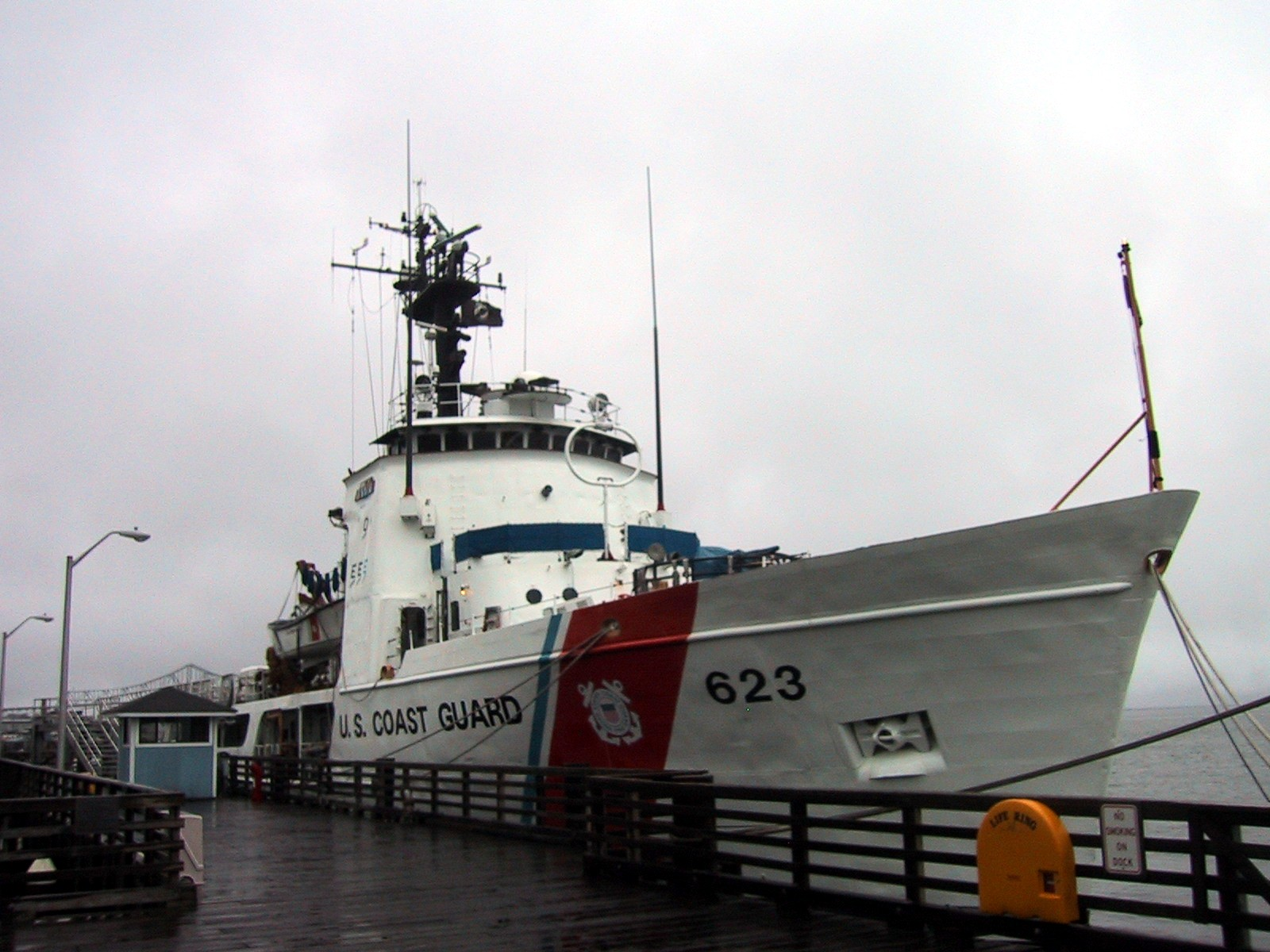 USCGC STEADFAST is pictured at the 17th pier in Astoria, Oregon. She is a medium endurance cutter, nicknamed, "El Tiburon Blanco" (Spanish for "The White Shark") by Colombian drug smugglers.